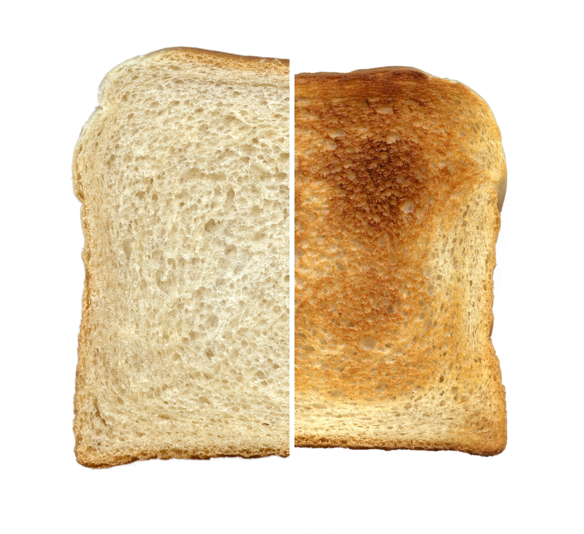 The same slice of bread, pre-toasting, and post-toasting.